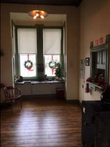 The Depot's Interior while festively decorated